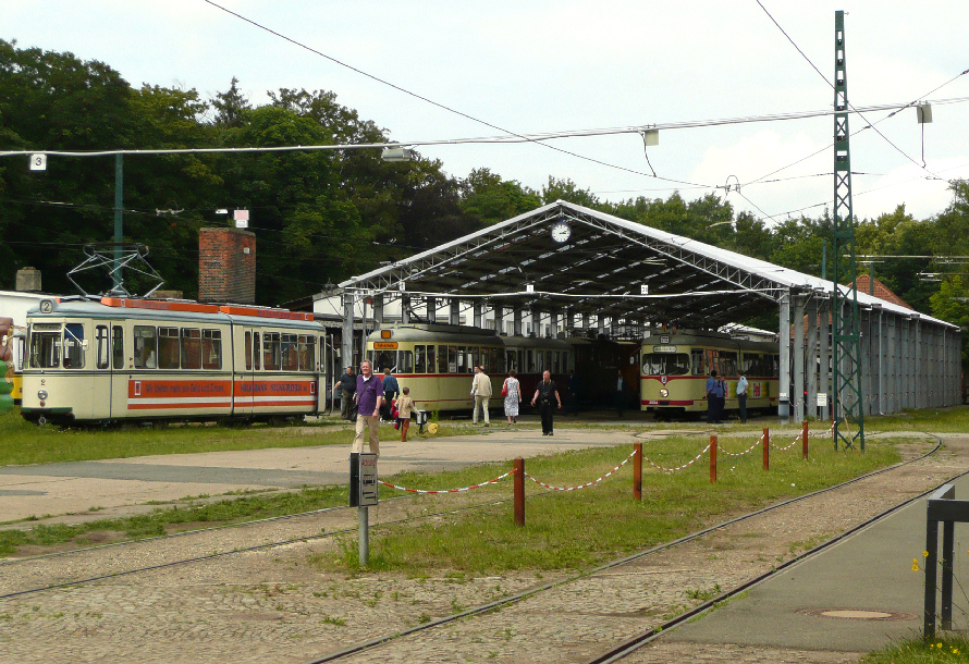 Hanover Tram Museum at Wehmingen with open tram hall, built in 2006